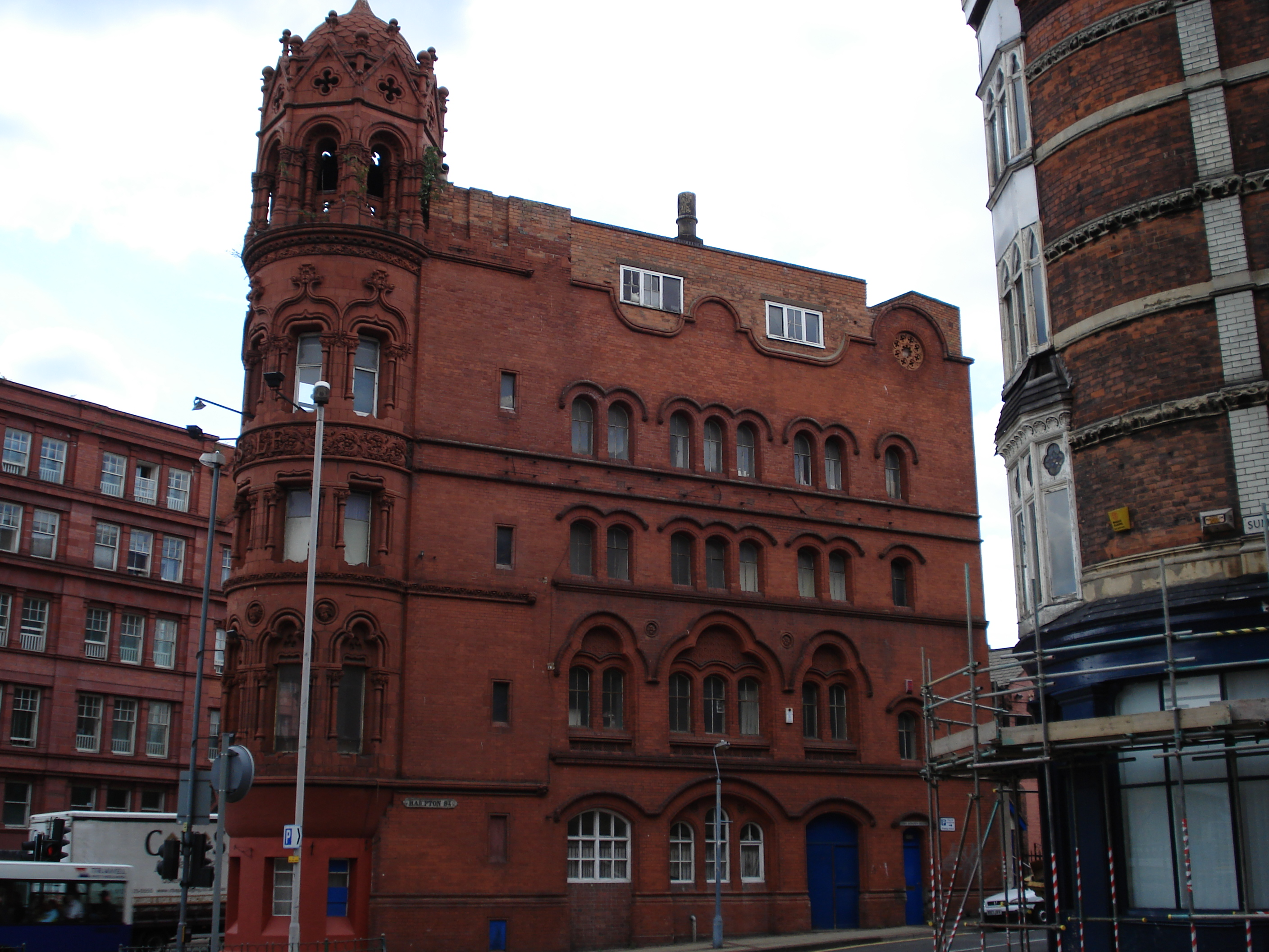 1-7 Constitution Hill, England. Originally offices and workshops for H. B. Sale, 1896. Red brick and terracotta. Architects William Doubleday & Shaw. Taken by myself 2006